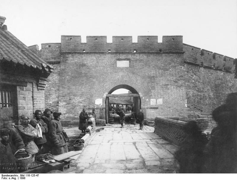 China 1898 Tsimo. Grosses Thor.